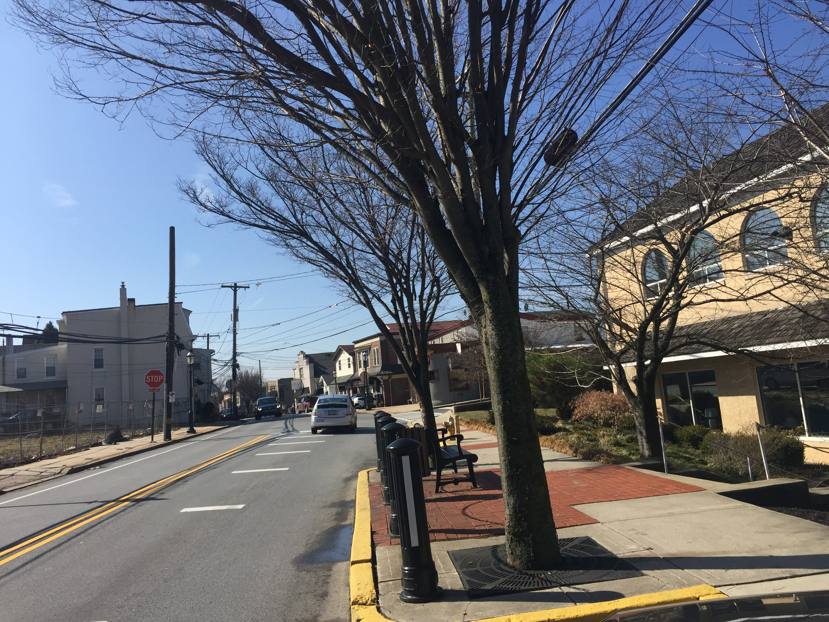 Downtown Malvern on king street